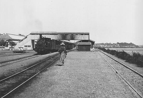 Shinagawa Station circa 1897